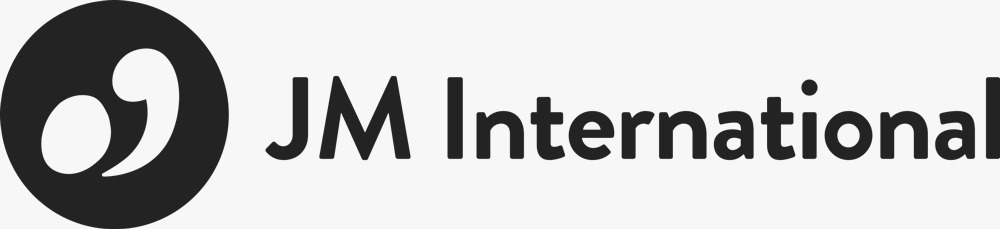 JMI New Logo